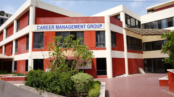 This building is central placement cell of IPS Academy